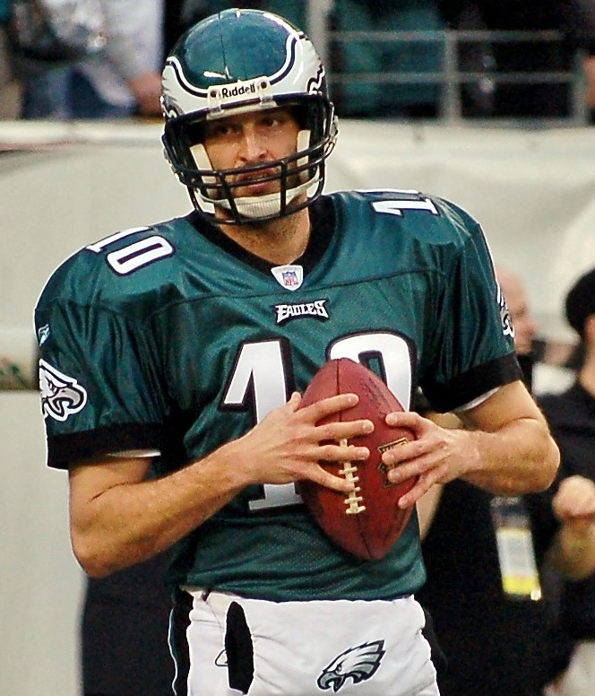 Philadelphia Eagles holder and backup QB Koy Detmer before the 2006 NFC Wild Card game in Jan. 7, 2007